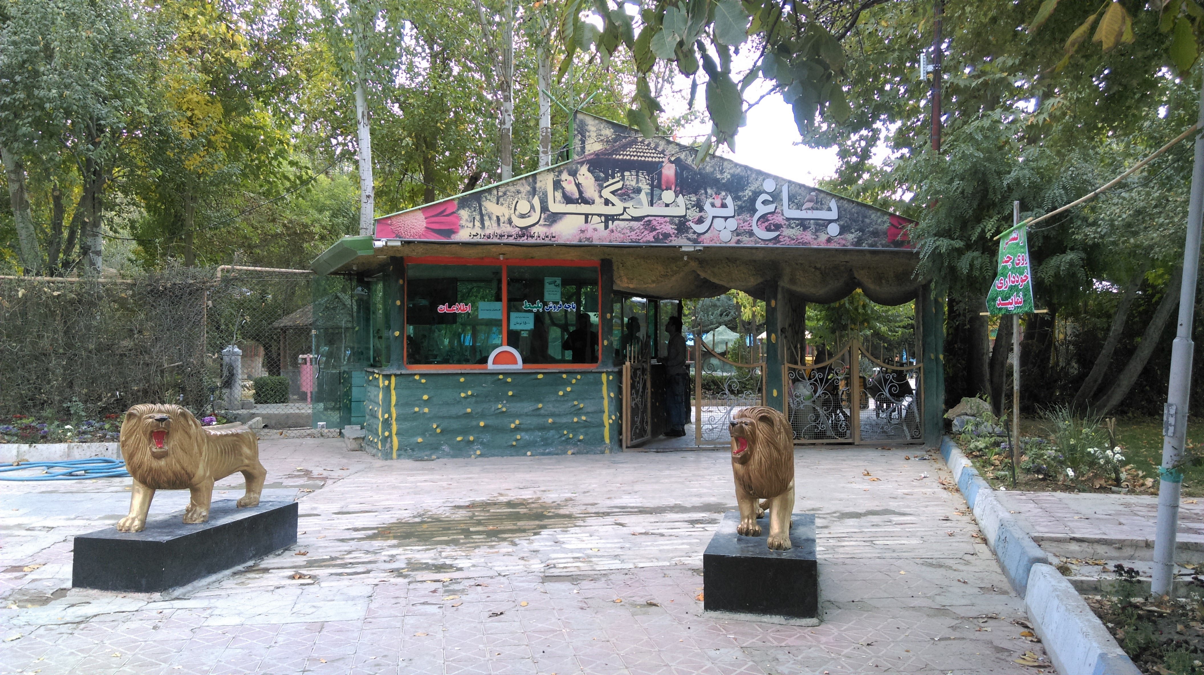 Birds Garden gate, Fadak Park, Borujerd, Iran